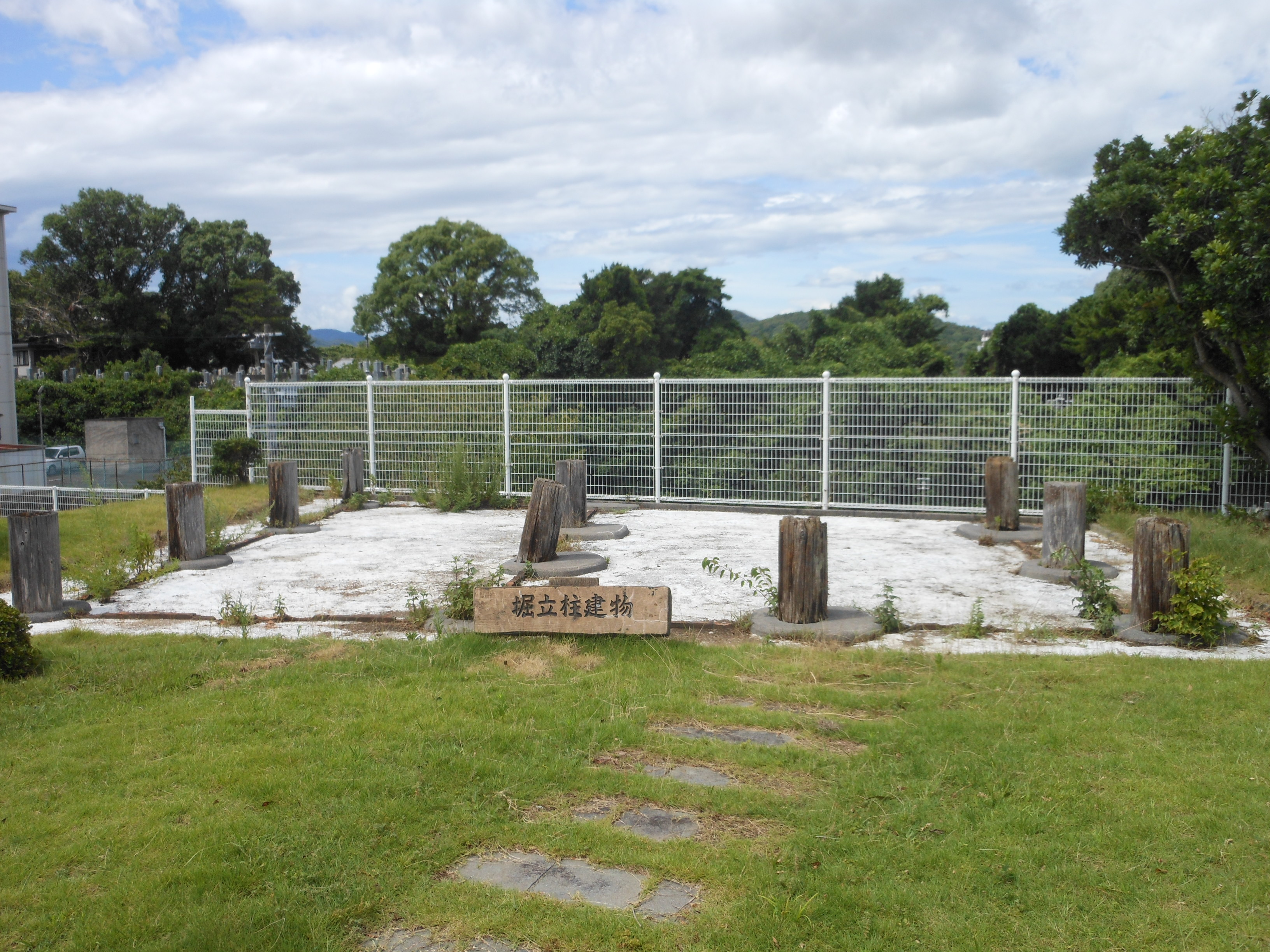 This is the Kakuregaoka Ruins park, which is located in Yamato-machi, Ise, Mie, Japan.